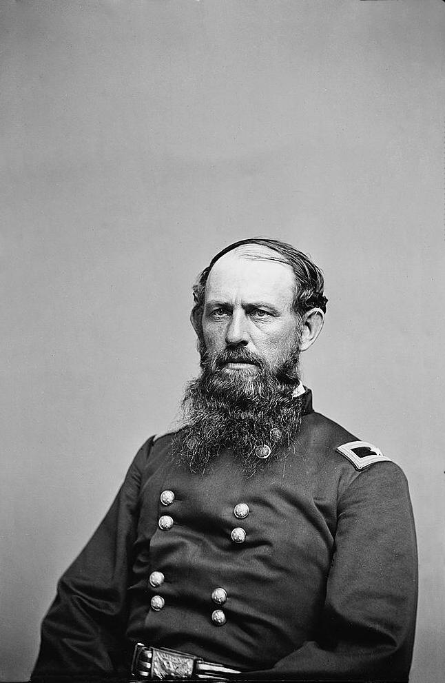 Gen. E.B. Tyler, 1st Col. of 7th Ohio Infantry.